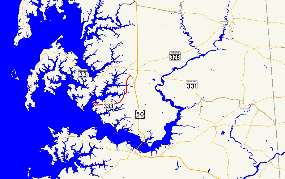 Map of Maryland Route 333